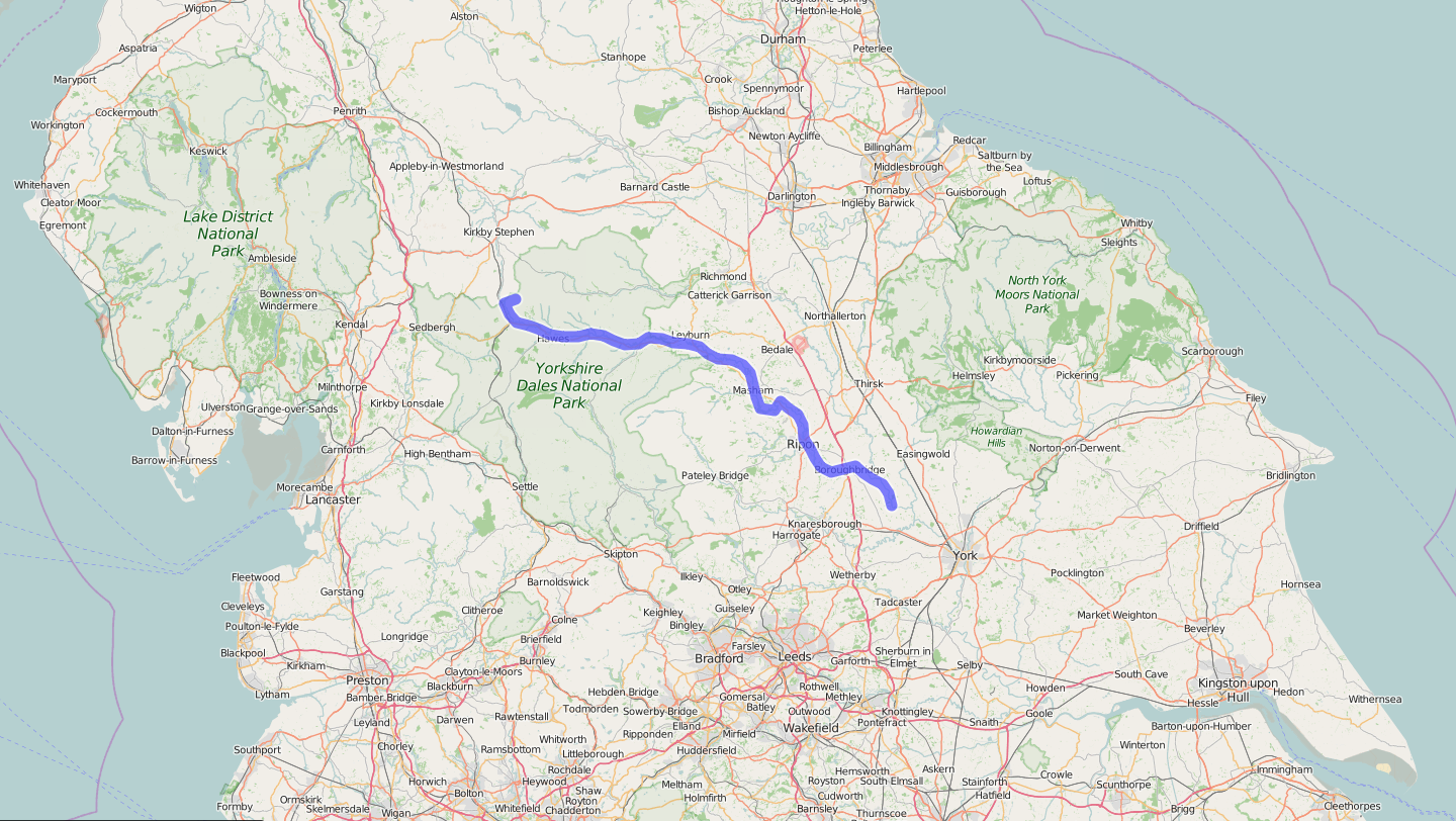 Location of River Ure in northern England